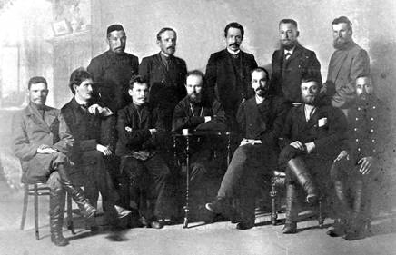 Members of the First Russian State Duma from Vyatka Guberniya